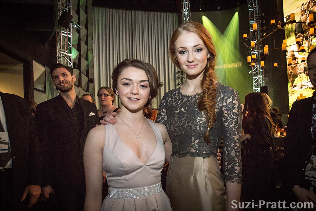 Photos by